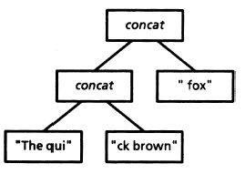 Rope representation of ‘The quick brown fox’